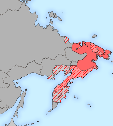 The map of distribution of Chukotko-Kamchatkan languages (red) in the XVII century (approximate; hatching) and in the end of XX century (continuous background).